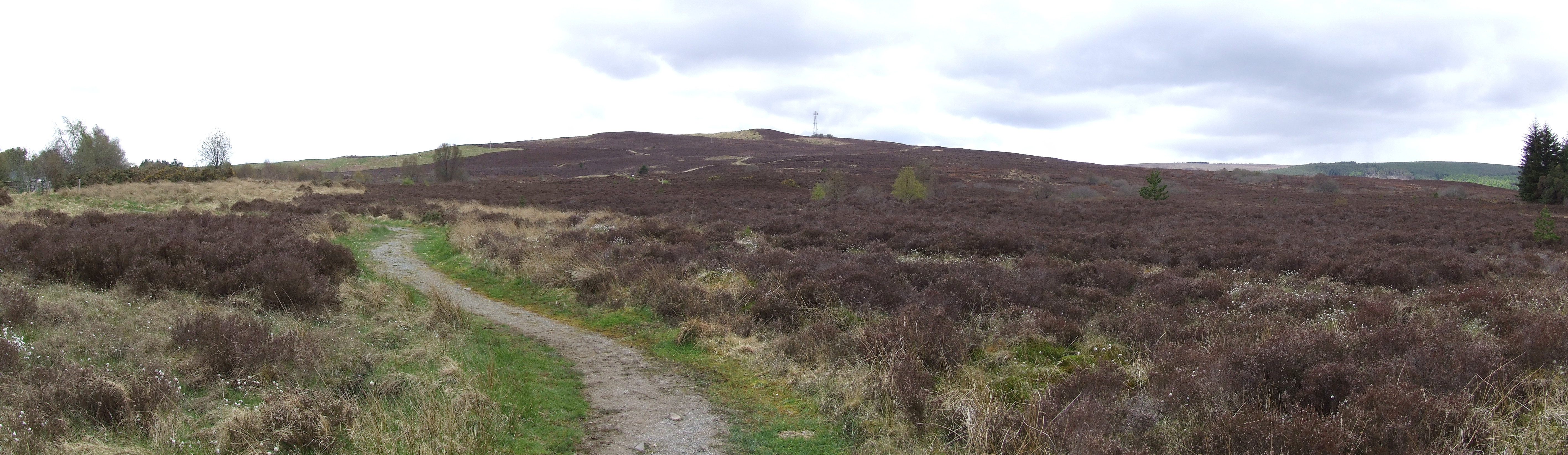 Ord Hill near Lairg in Scotland